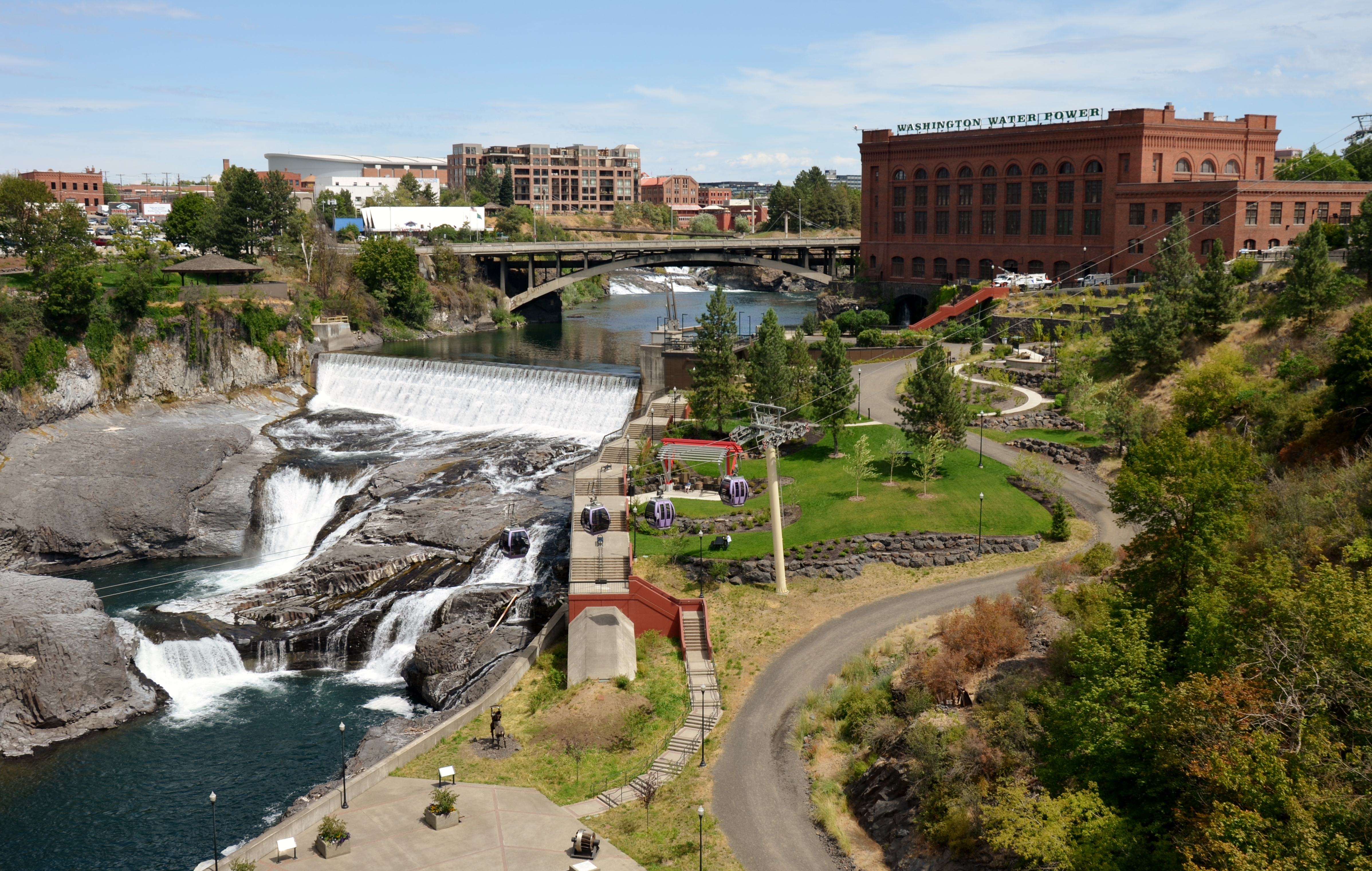 West Central, Spokane, WA, USA